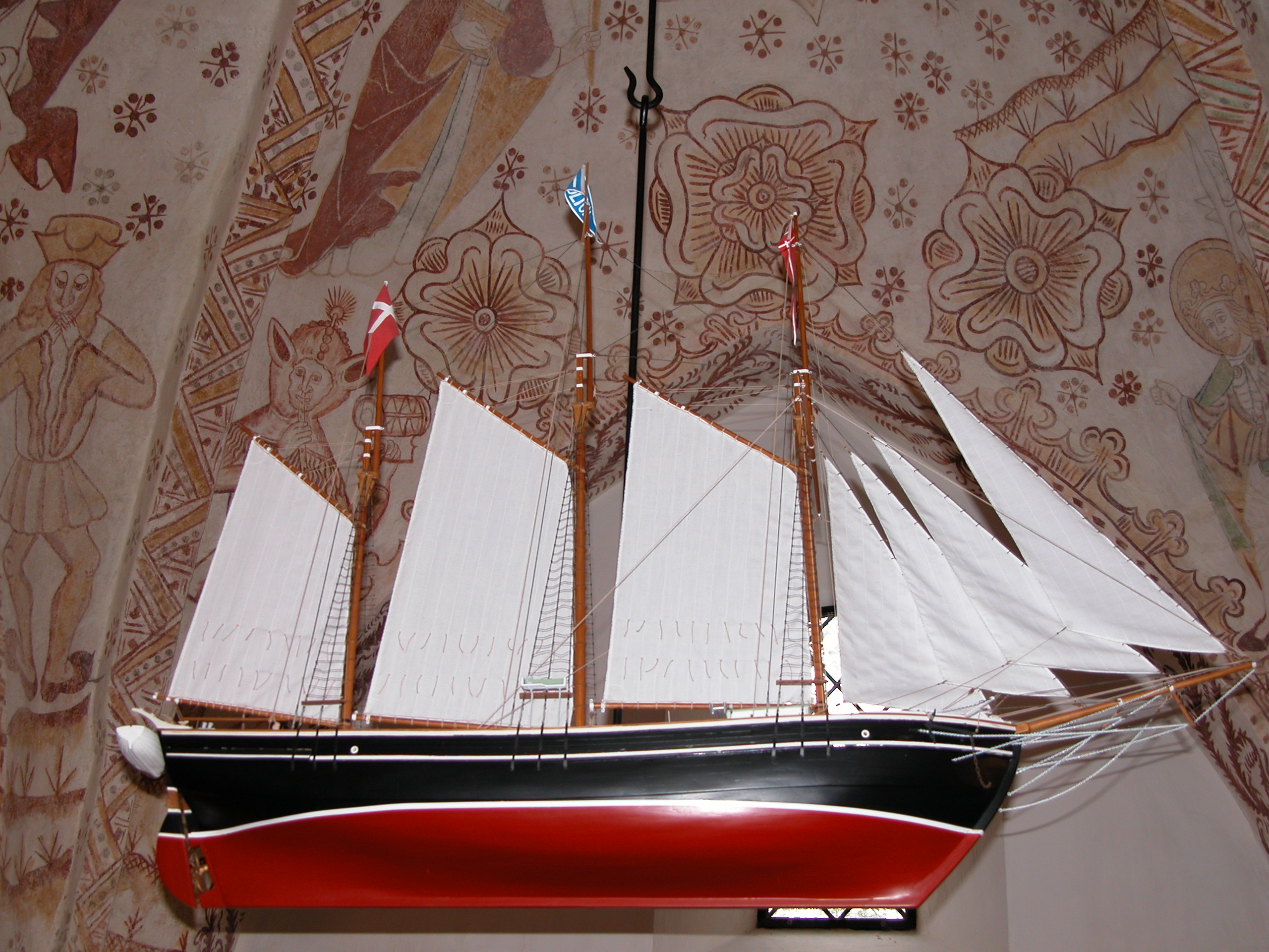 Church of Skivholme, Nave Fulton